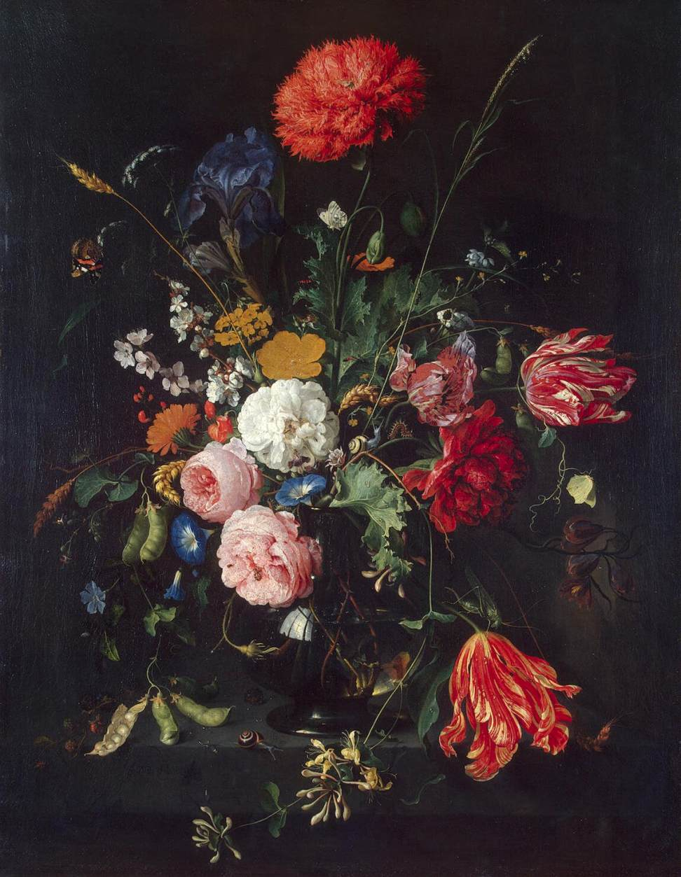 Flowers in a Vase. Netherlands, between 1606 and 1684. From the collection of Count Karl von Cobenzl, Brussels. Bought by Catherine the Great in 1768.